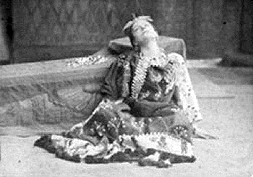 Eleonora Duse (1858) in "Antony and Cleopatra" ca. 1888